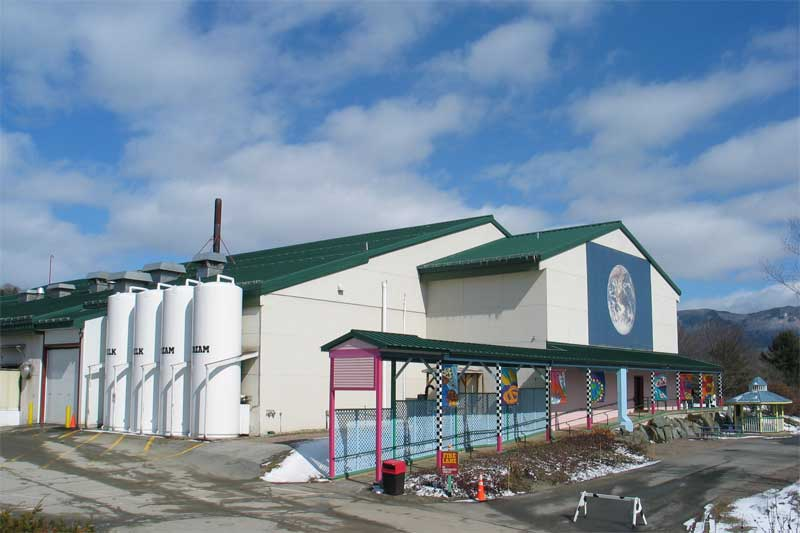 Photograph of Ben & Jerry's Factory in Waterbury, Vermont